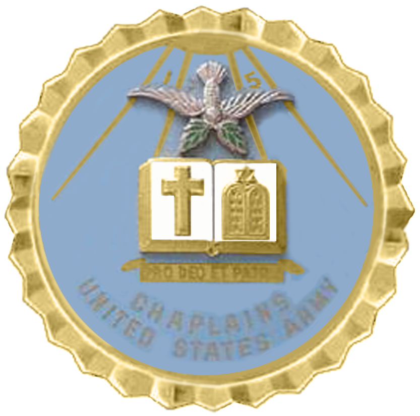 Photo of US Army Chaplain Corps lapel pin, showing US Army Chaplain Corps seal, or use as a pin on civilian clothing. Turned out government funding was not authorized for this project, and production was suspended.